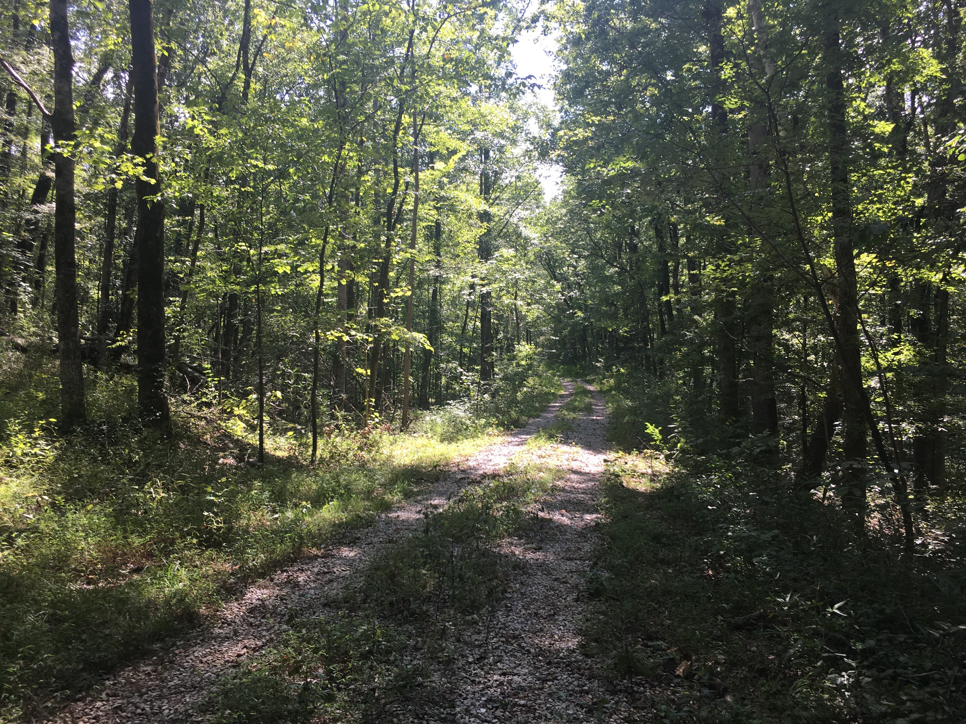 The Payamatha Horse Trail in Tombigbee National Forest, Mississippi. This section was formerly part of the Okolona, Houston and Calhoun City Railway